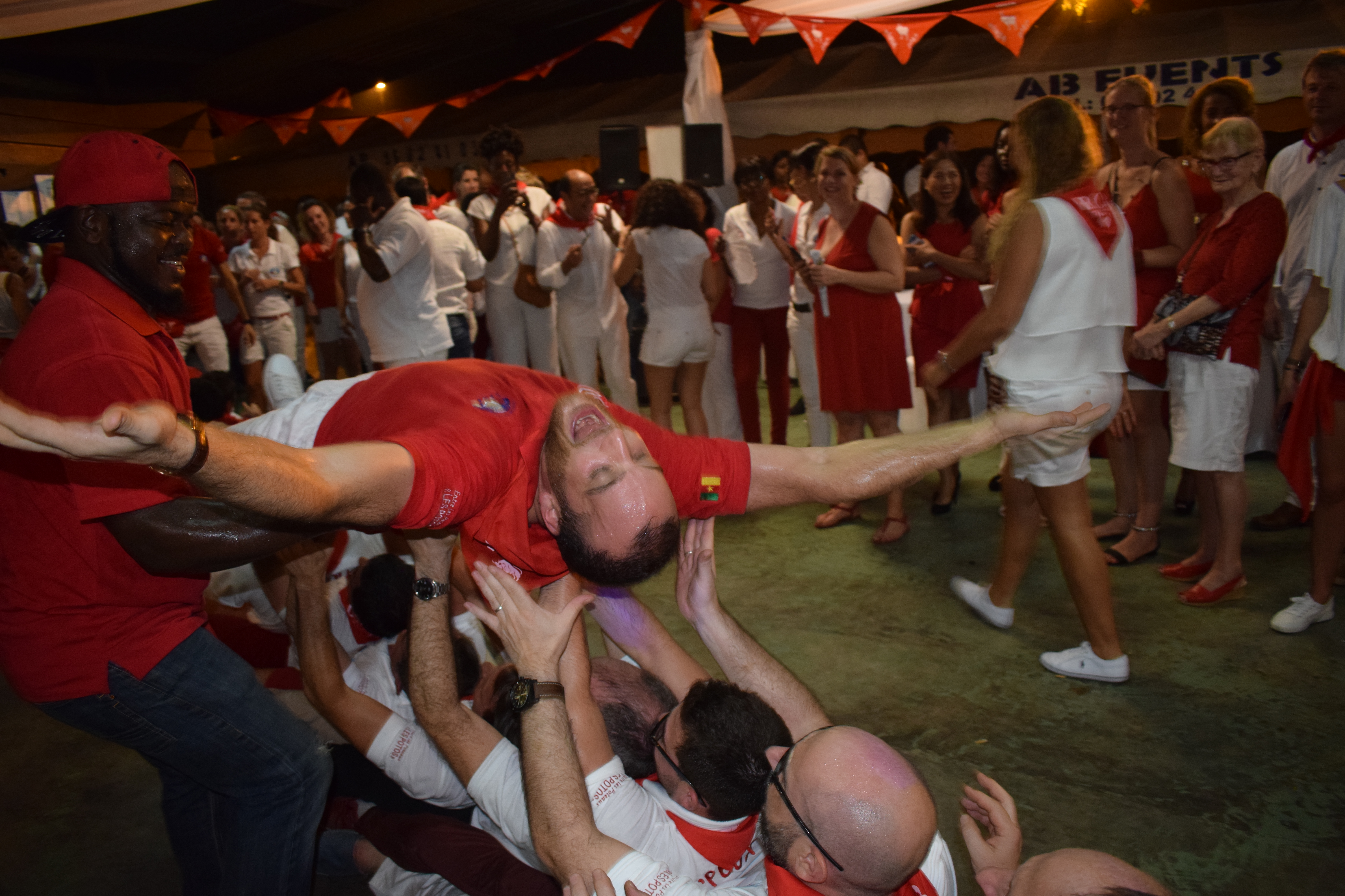 This is an image with the theme "Play" from: Cameroon